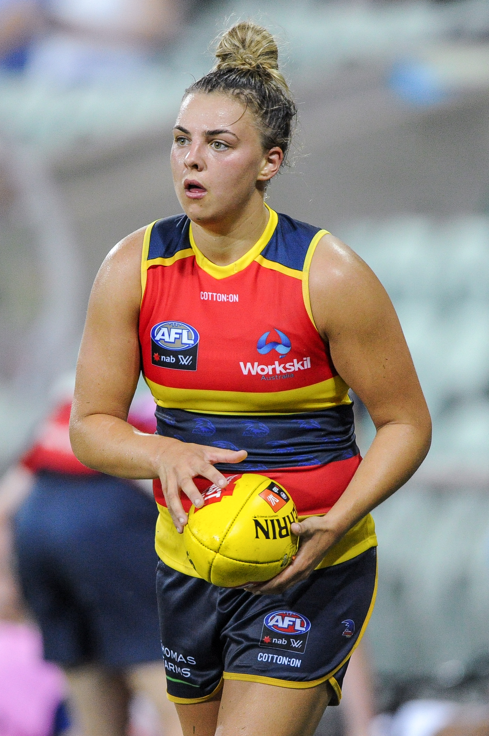 Ebony Marinoff in the AFL Women's preseason match between the Adelaide Football Club and Fremantle Football Club on 20 January 2018 at TIO Stadium.